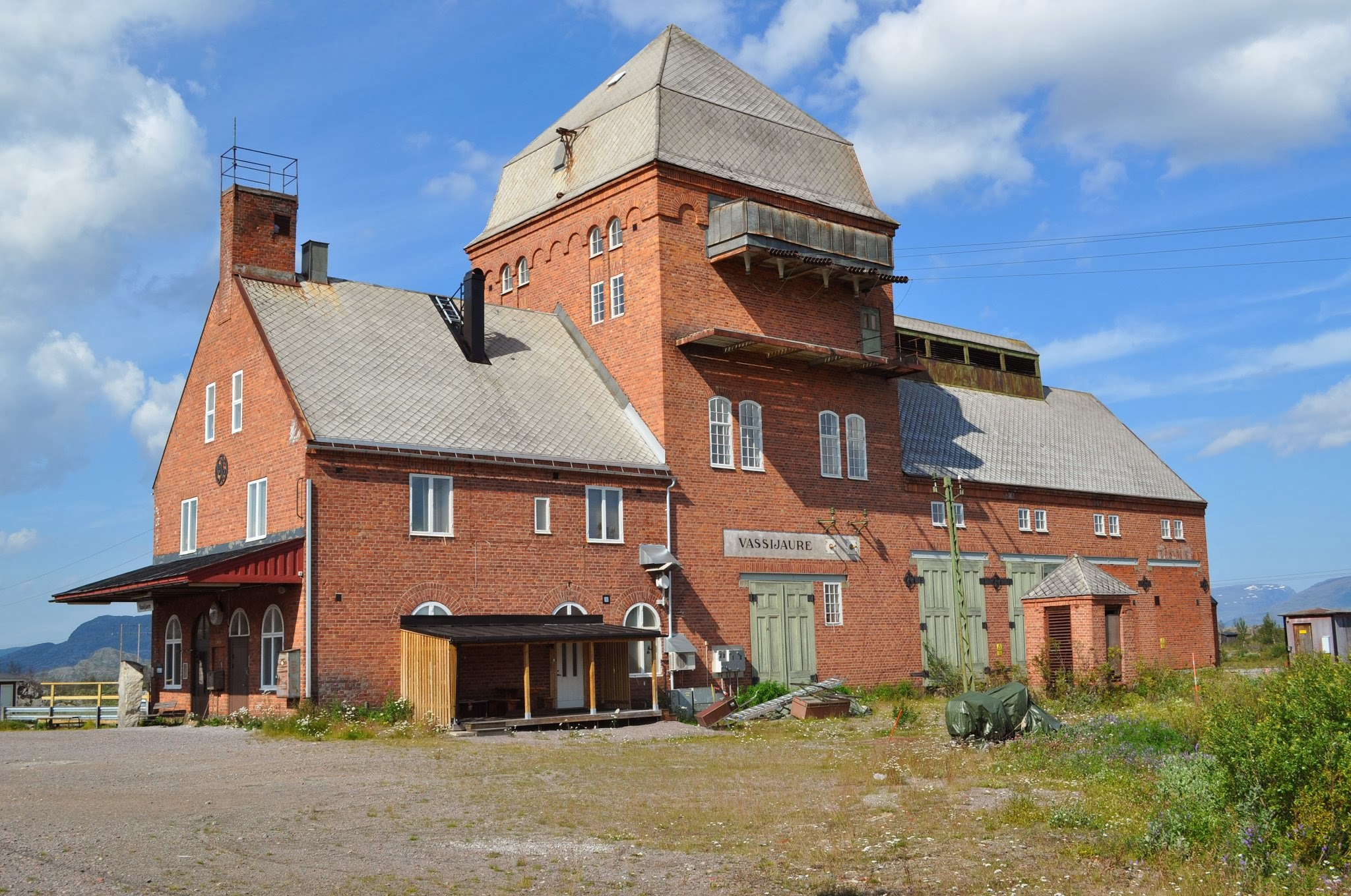 Vassijaure trainstation on sommer.